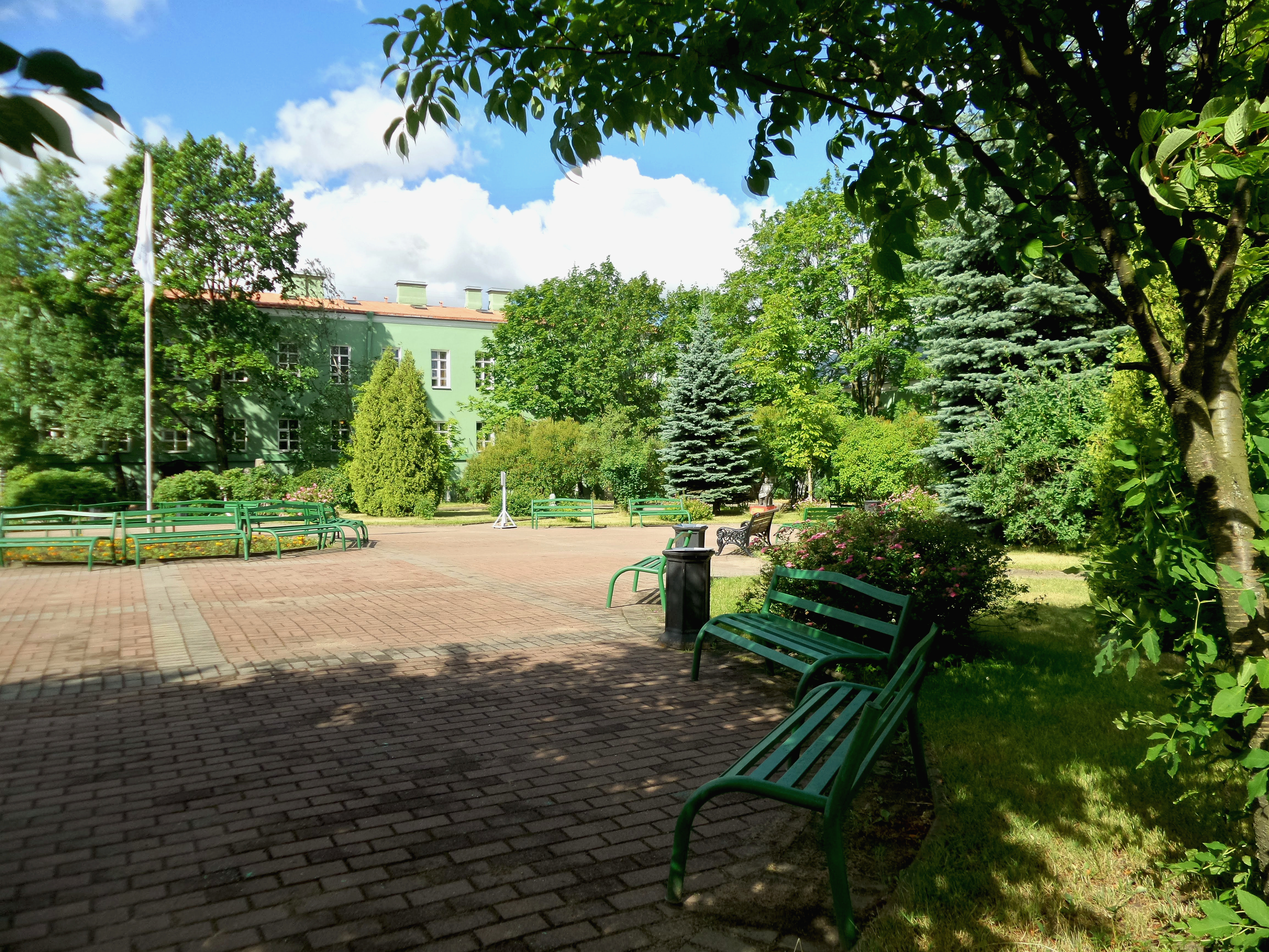 View of summer yard of Faculty of Philology of Saint Petersburg State University, 2019.